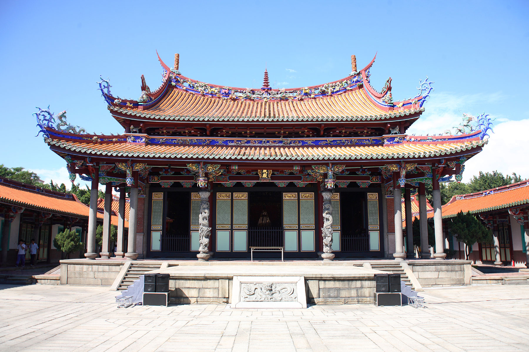 Oct. 01, 2010 台北